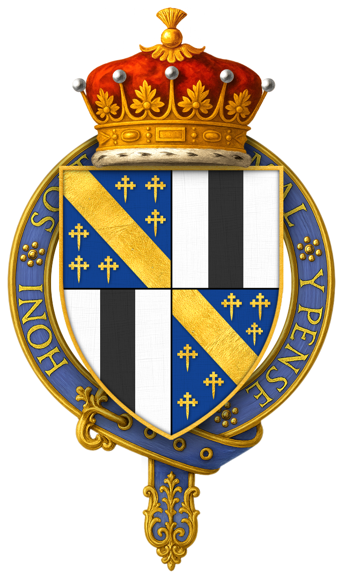 Coat of arms Sir John Erskine, 18th Earl of Mar, KG